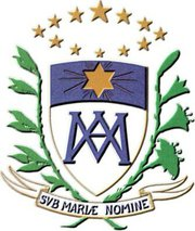 The Crest of the Society of Mary